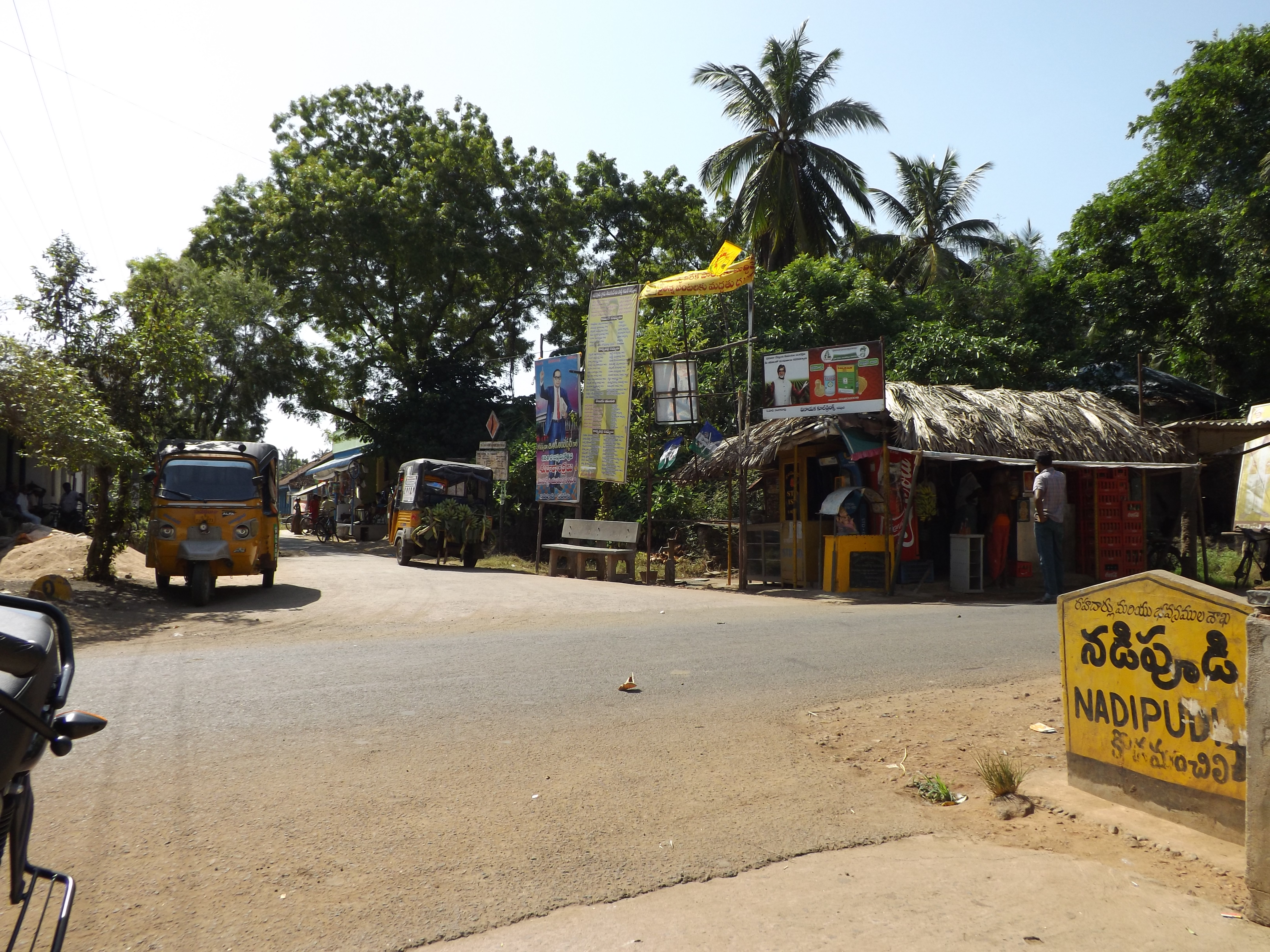 Mainroad of A.P. VIllage Nadipudi